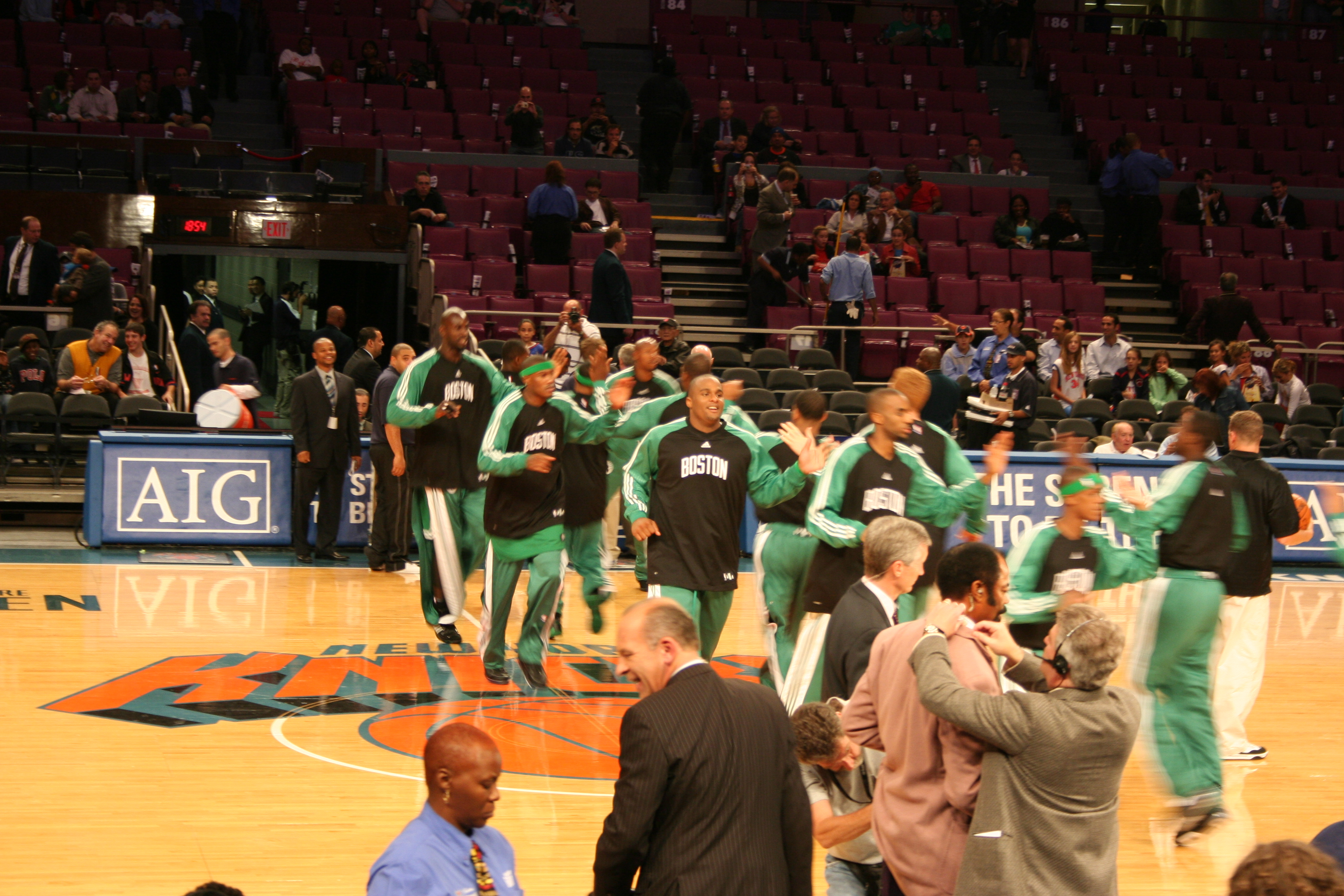 Boston Celtics players warming up before their game against the New York Knicks at the Madison Square Garden